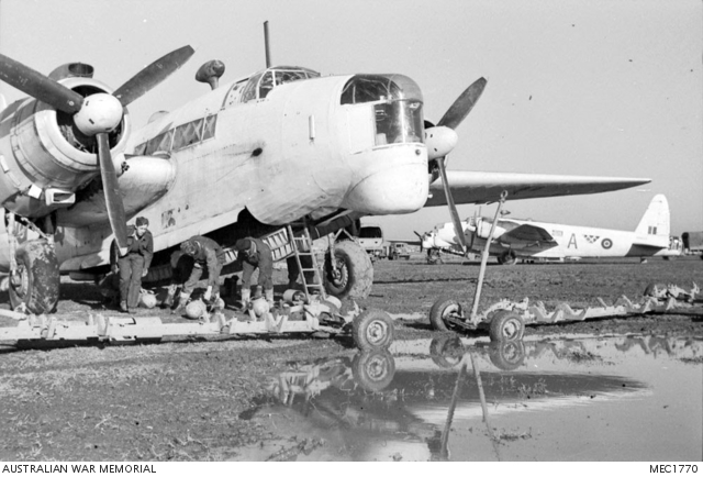 Foggia, Italy. Armament personnel of No. 458 Squadron RAAF loading bombs onto one of the squadron's Vickers Wellington Mk XIV aircraft. See also : File:Bombing up 458 Squadron RAAF Wellington Foggia Jan 1945 AWM MEB0237.jpg